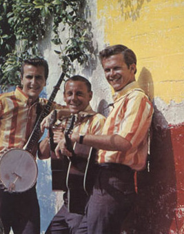 A formal publicity shot of the second troupe of The Kingston Trio (l-r) John Stewart, Nick Reynolds, Bob Shane; used as a model for a painting that appeared as an album cover for album Sunny Side (1963).